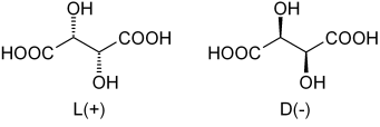 The two enantiomers of the tartaric acid